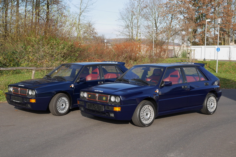 Lancia Delta "Club Italia"